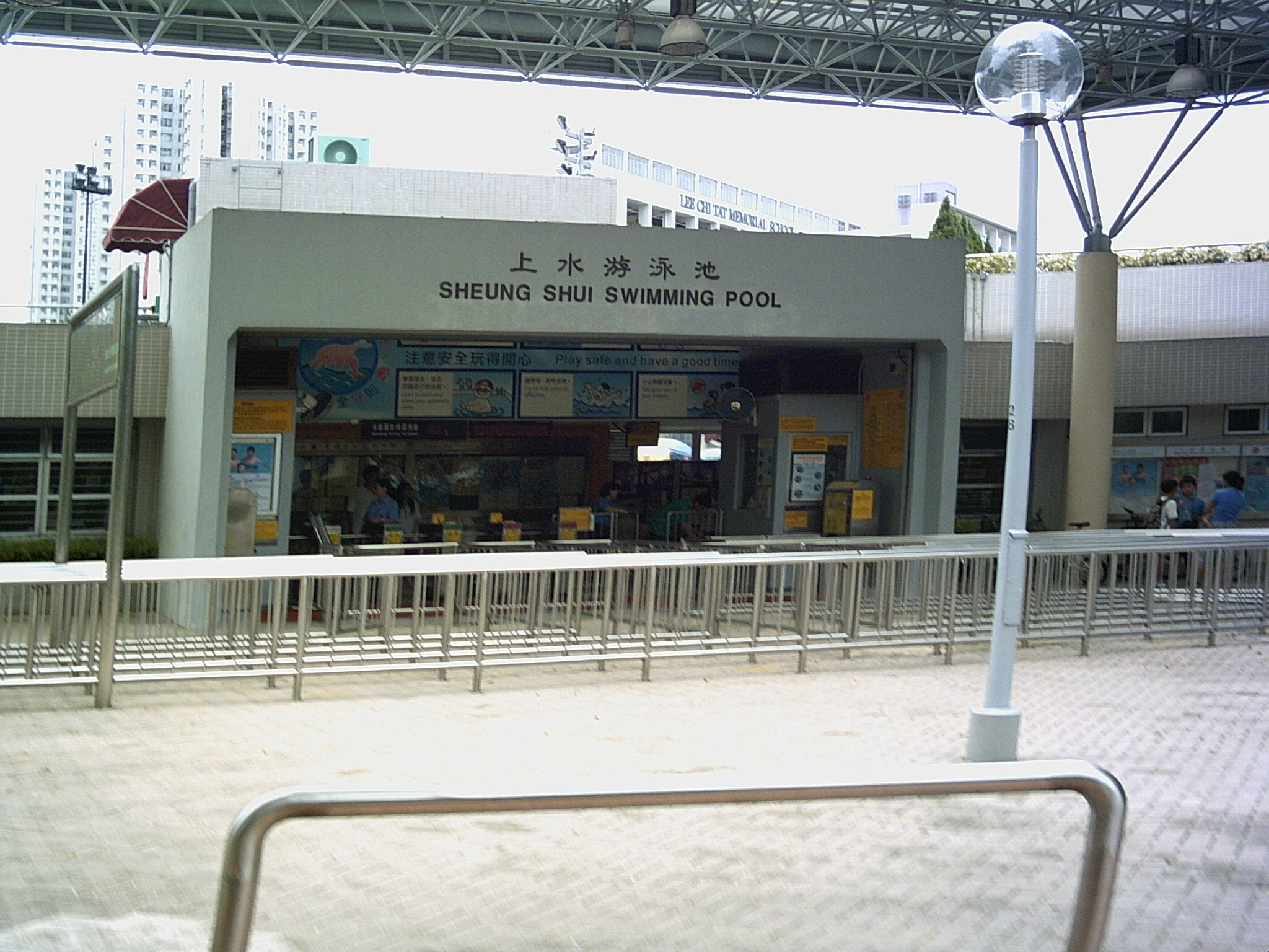 Main entrance of Sheung Shui Swimming Pool. Taken by myself in August, 2006.